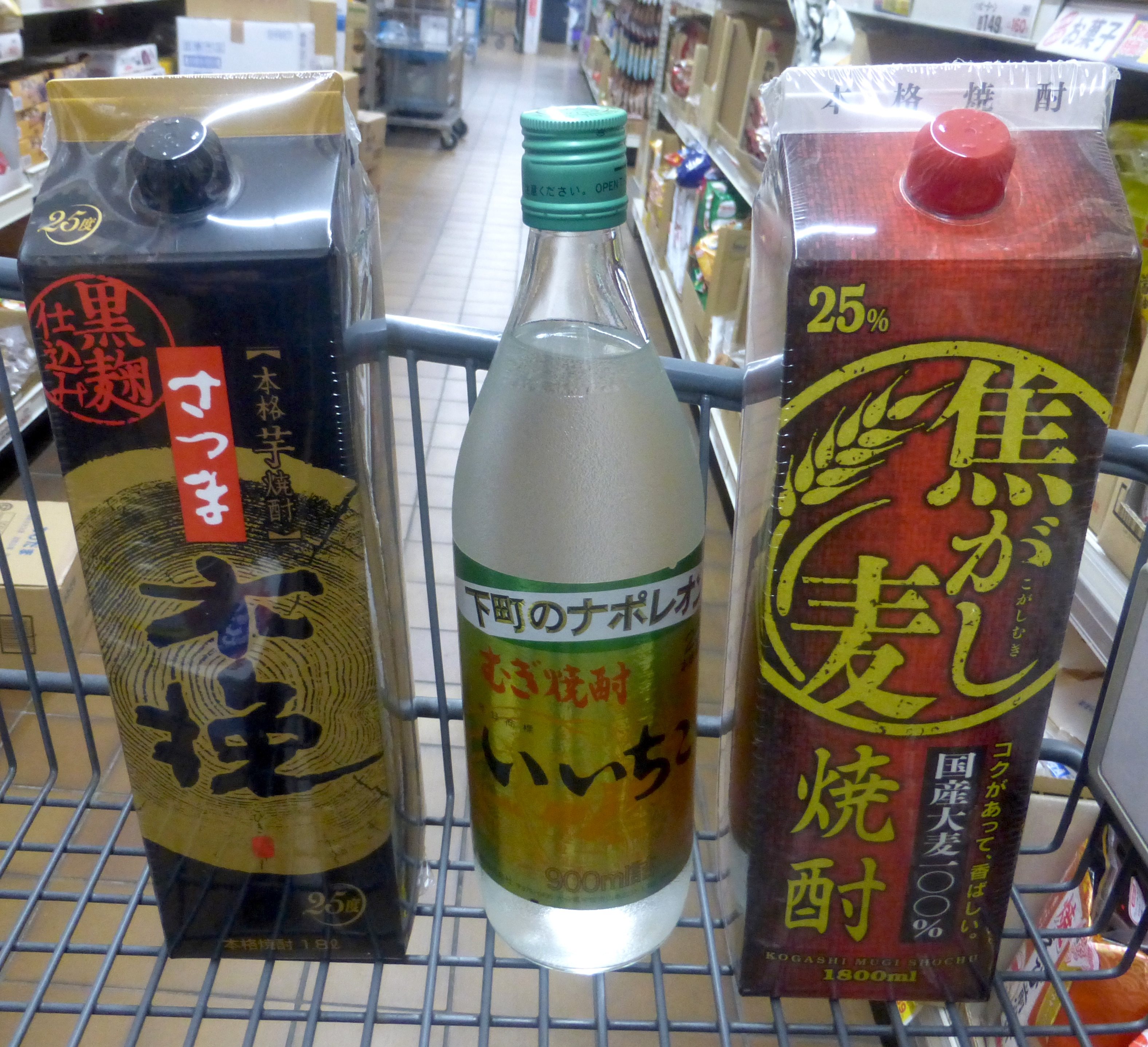 A bottle and two cartons of Japanese shōchū